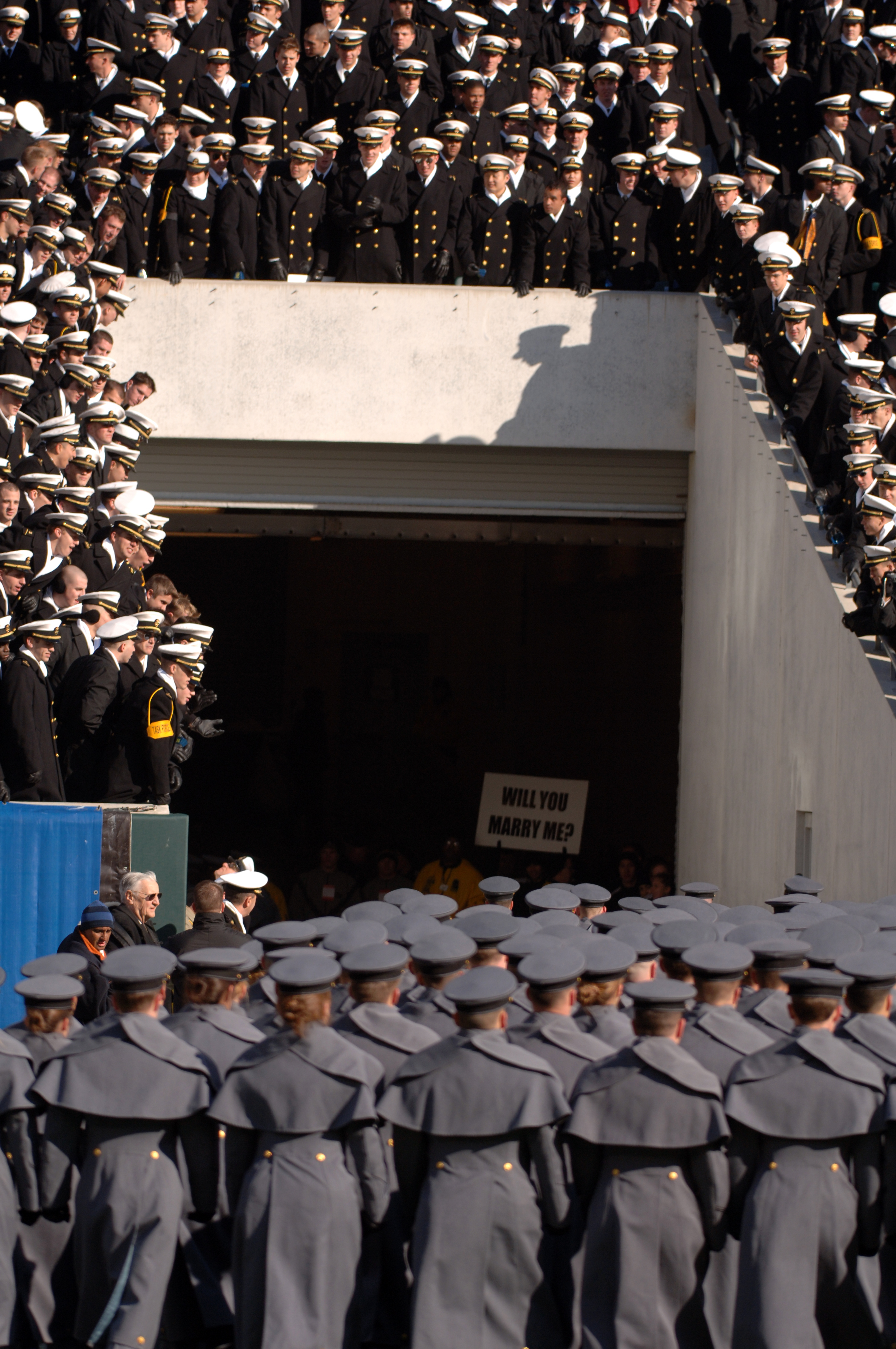 The Army’s West Pont Cadets march off the field during opening ceremonies for the 106th playing of the Army vs. Navy Football game.